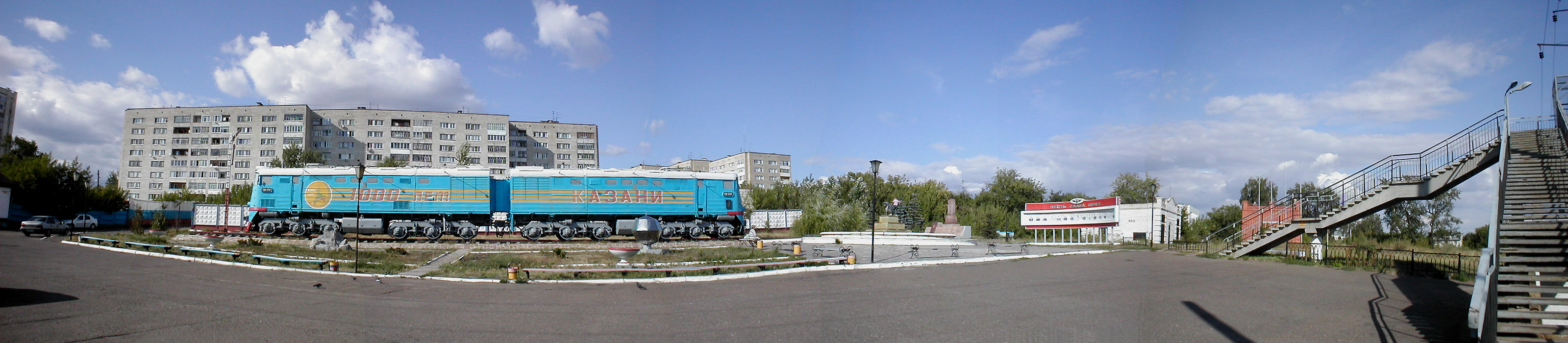 Kazan 1000 years square in Yudino locality in Kazan